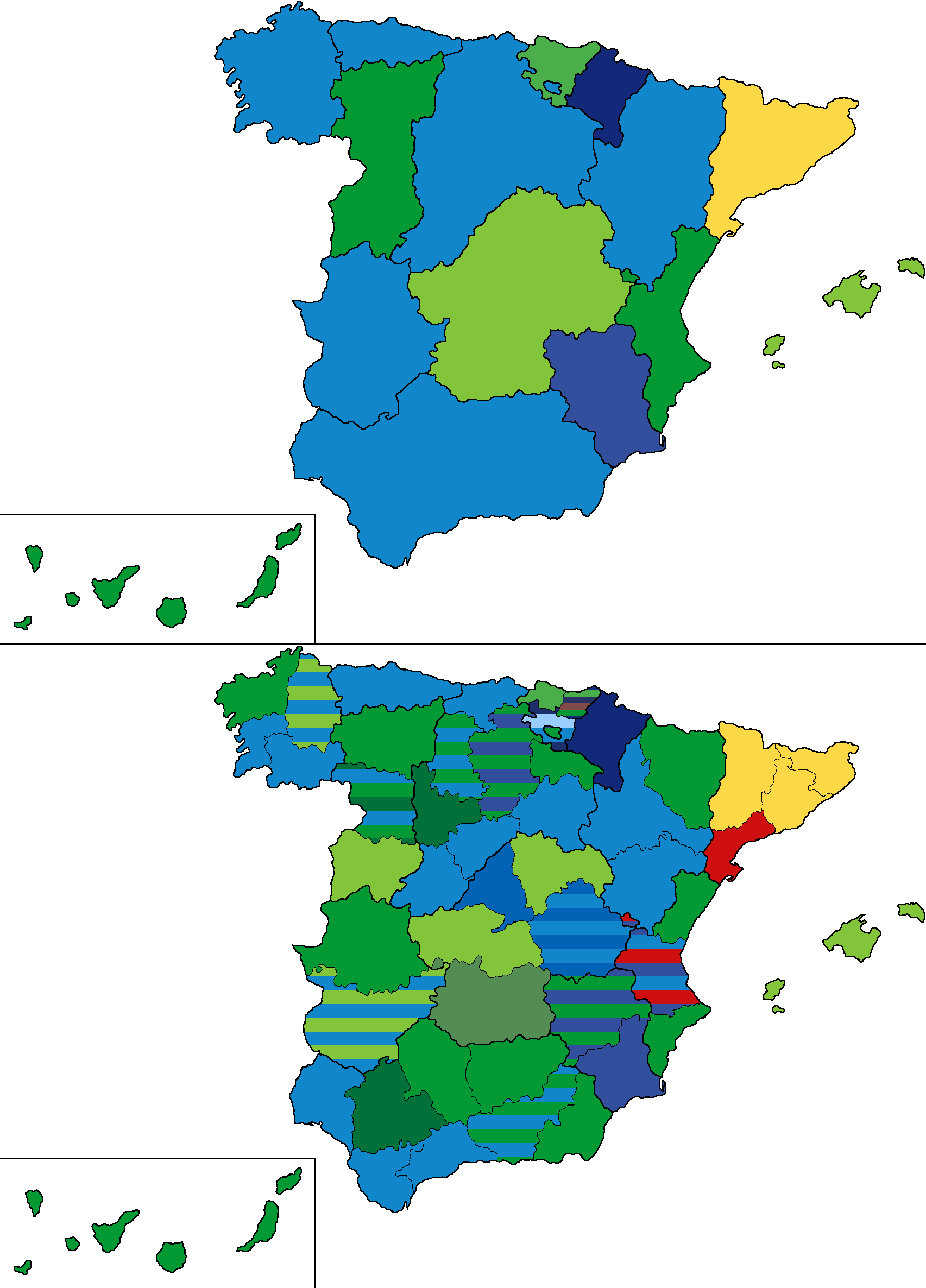 Most voted party in the 1918 Spanish Congress of Deputies election by regions and provinces.